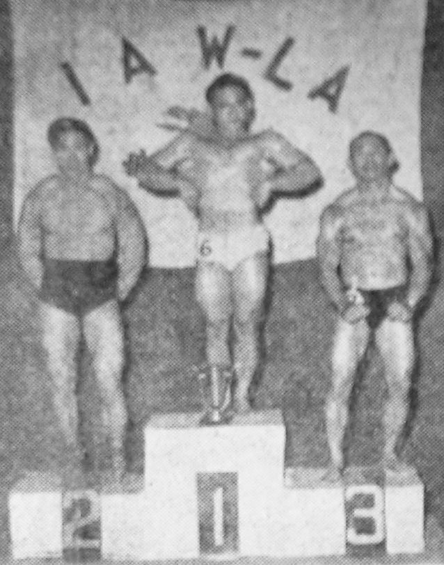 Winners of the 1952 Mr. Indonesia Competition